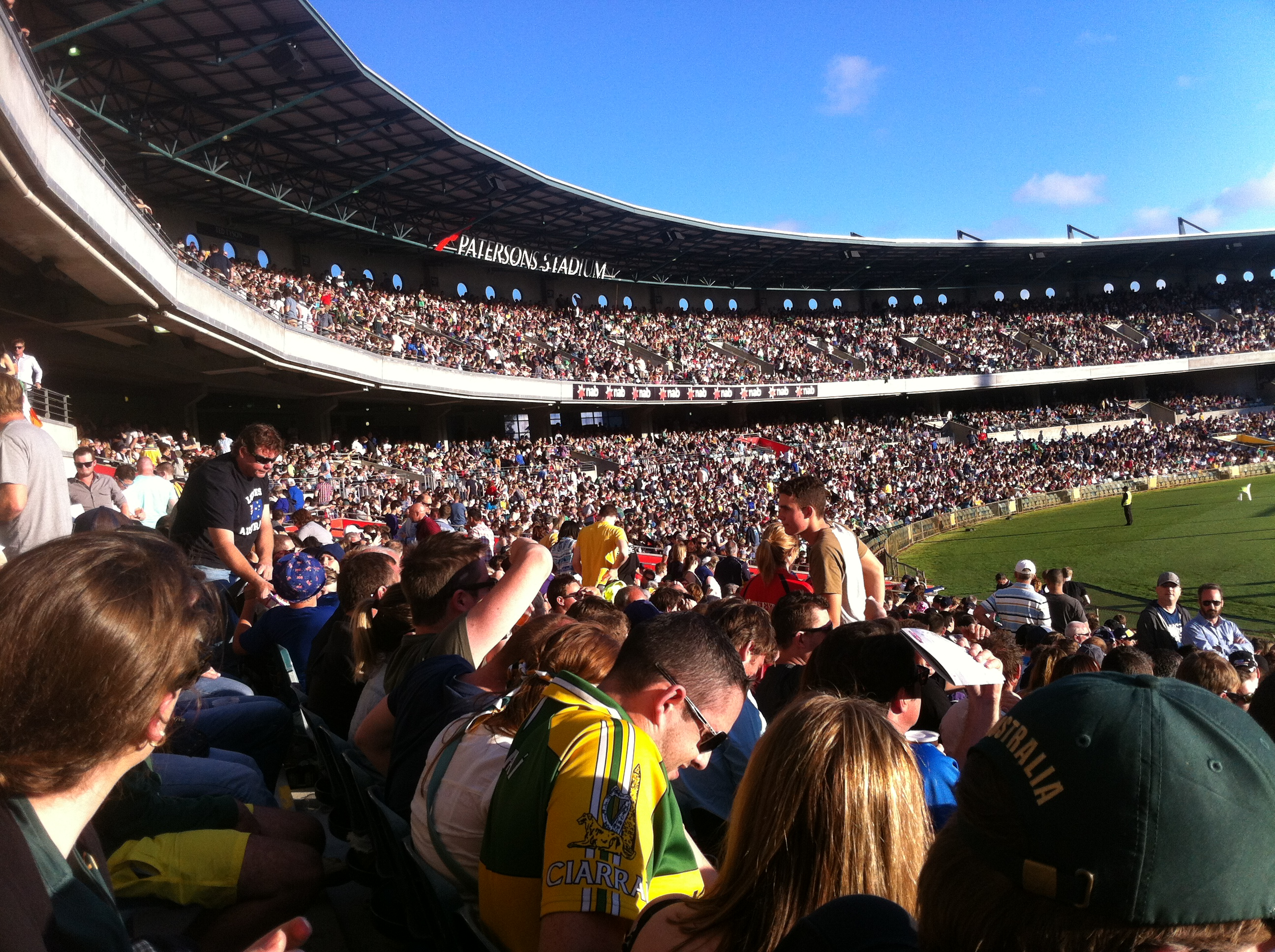 Australia vs Ireland International rules Game Nov 22 2014 Paterson Stadium Crowd Shot